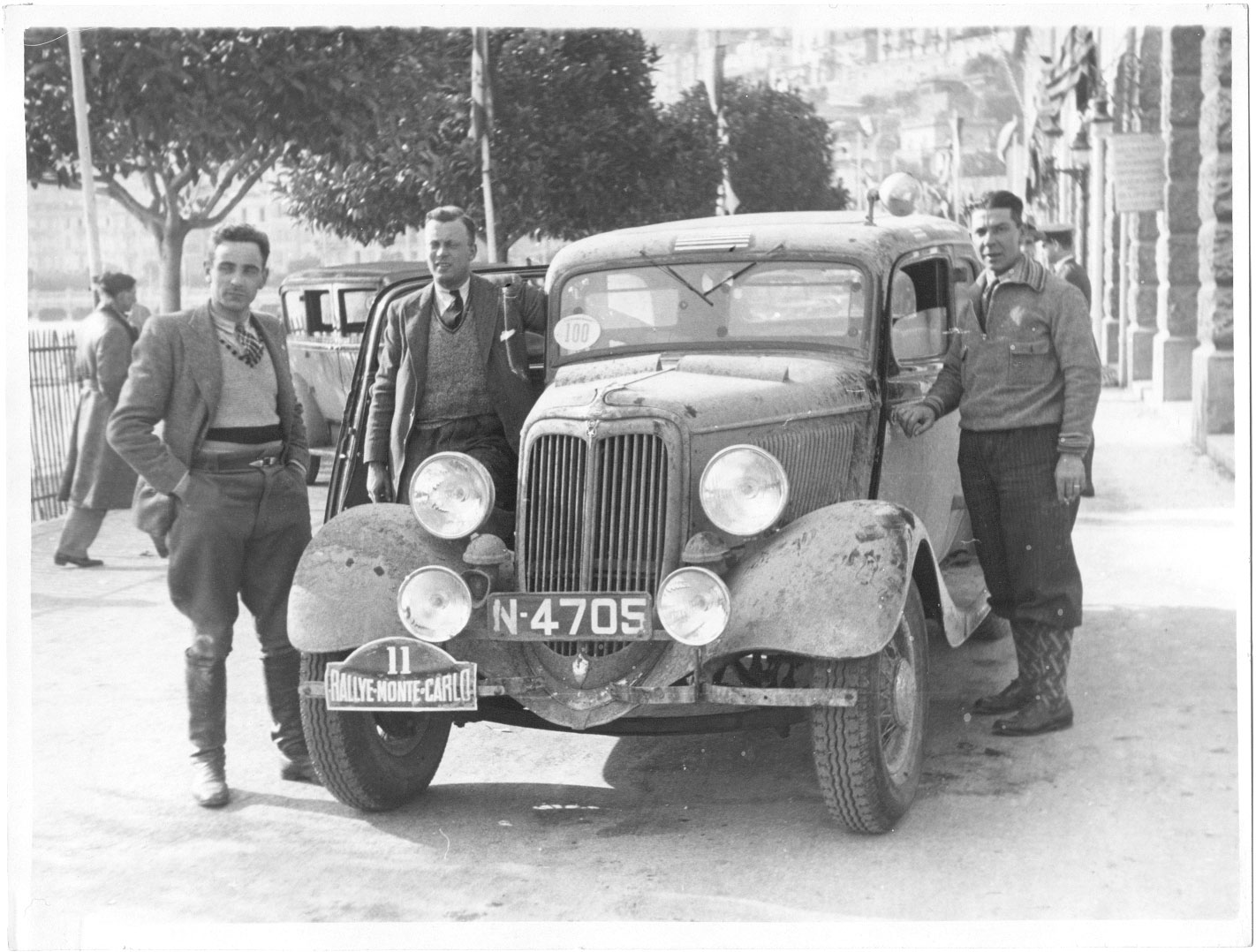 Entry #11 at the 1934 Rallye Monte Carlo was a Ford V8 ("N-4705"), registered/driven by dutchman J. H. van der Meulen (first name probably Jacques[1]). They had started in Athens.[2] According to a race report (and the dutch description previously added to this page by uploader), also in this picture is Johannes Menso (to the right) and Otto Wild (middle).[3]